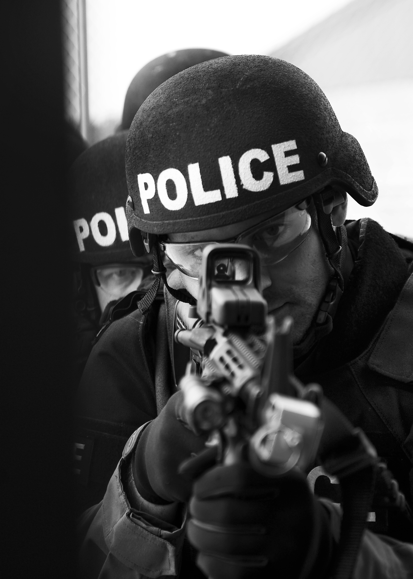 A police officer peers through an EOTech holographic sight of an AR-15 rifle as he breaches into the Live Fire Shoot House at the Camp Atterbury Joint Maneuver Training Center in Edinburgh, Indiana, May 13, 2010. The officers, with Noblesville Police Department, train with live ammunition in close quarter situations.